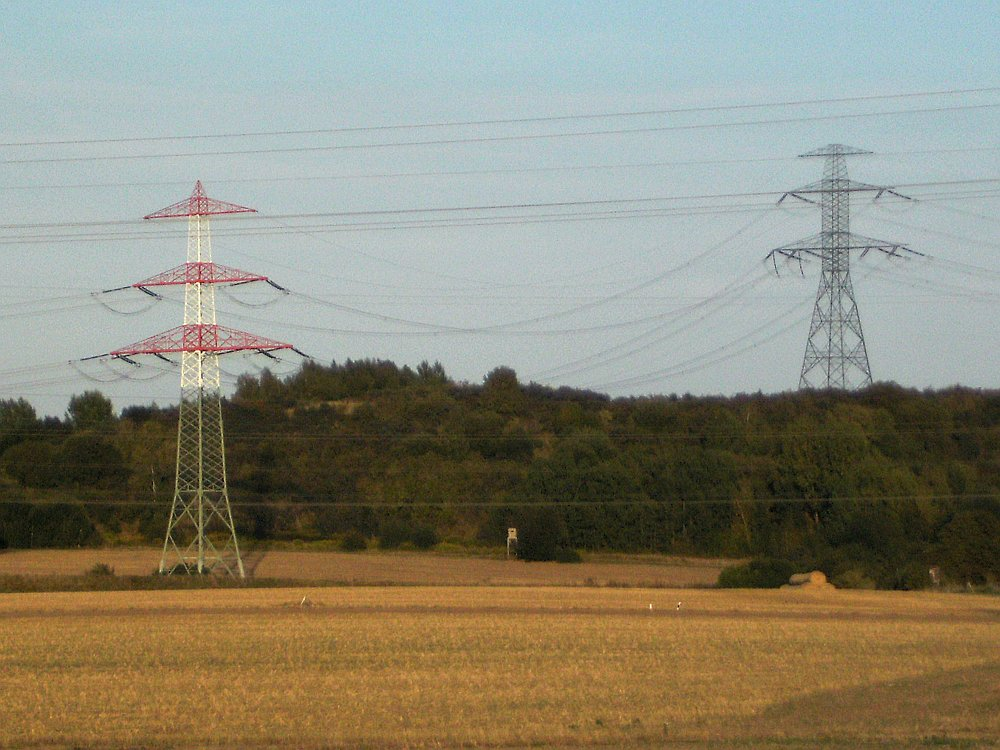 380 kV-powerline Helmstedt–Wolmirstedt crosses former border between West- and East Germany. Pylon on the left is in former West, pylon on the right is in former East Germany.